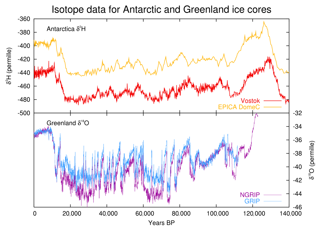 Comparison of temperature proxies for ice cores from Antarctica and Greenland for 140,000 years. Greenland ice cores use delta 18O, while Antarctic ice cores use delta 2H. Note the Dansgaard-Oeschger events in the Greenland ice core between 20,000 and 110,000 years ago, which barely register (if at all) in the corresponding Antarctic record. GRIP and NGRIP data is on ss09sea timescale, Vostok uses GT4, and EPICA uses EDC2.